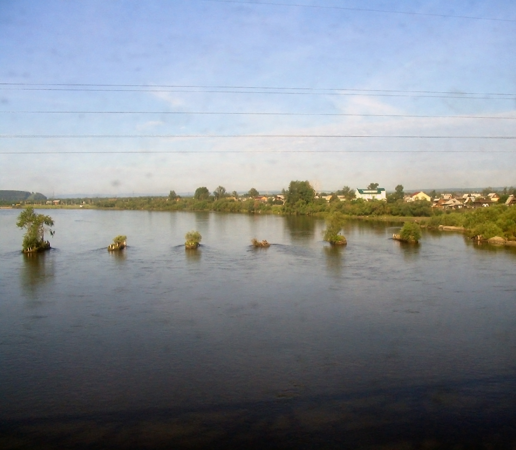 Irkut River in summer, as seen from the trans-Siberian railway outside of Irkutsk near its confluence with the Angara River. Taken by me 7/06, released into public domain